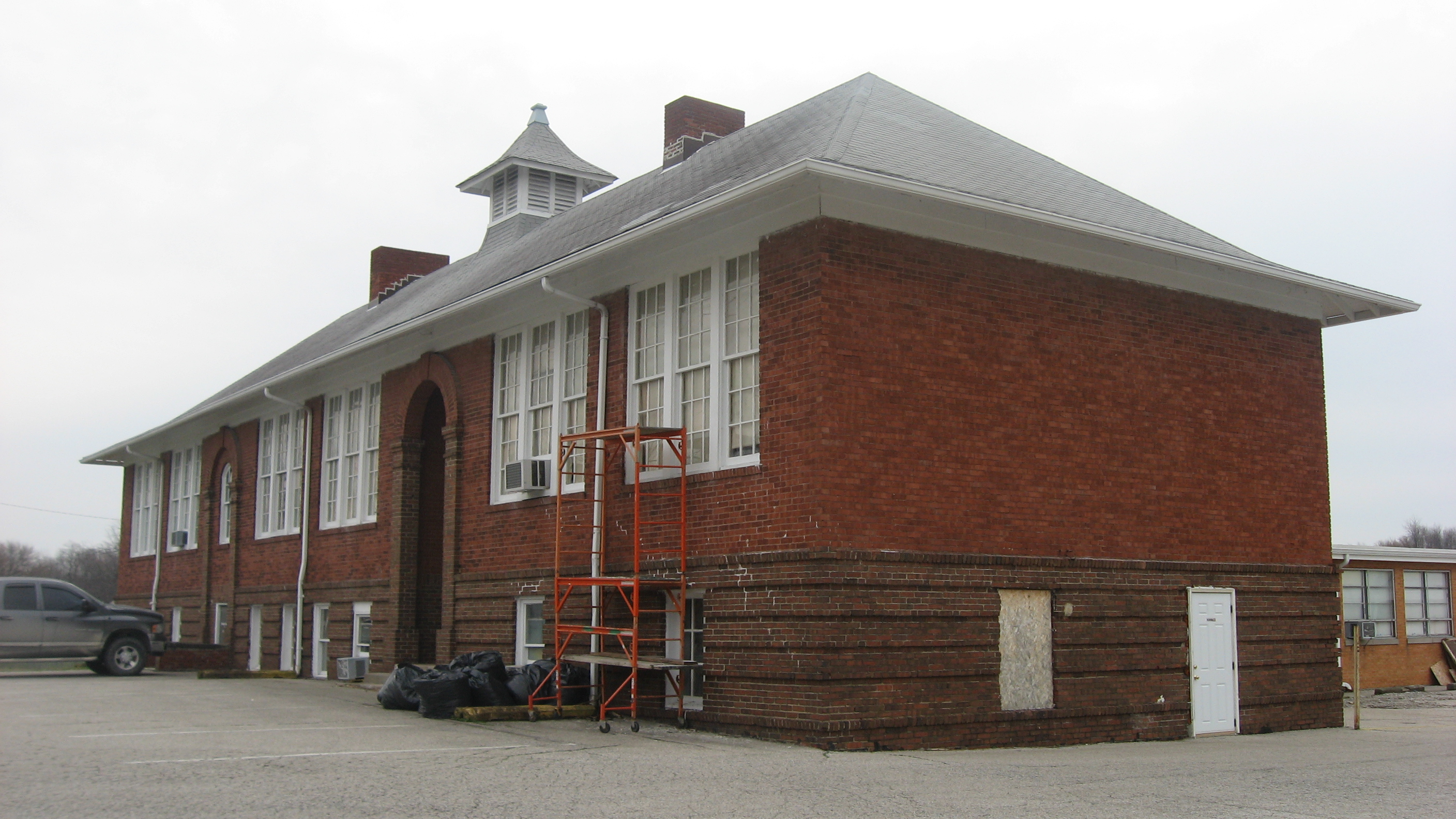 Front and western side of the Hall School, located at 5955 W. Hurt Road at Hall in Gregg Township, Morgan County, Indiana, United States. Built in 1911, it is listed on the National Register of Historic Places.